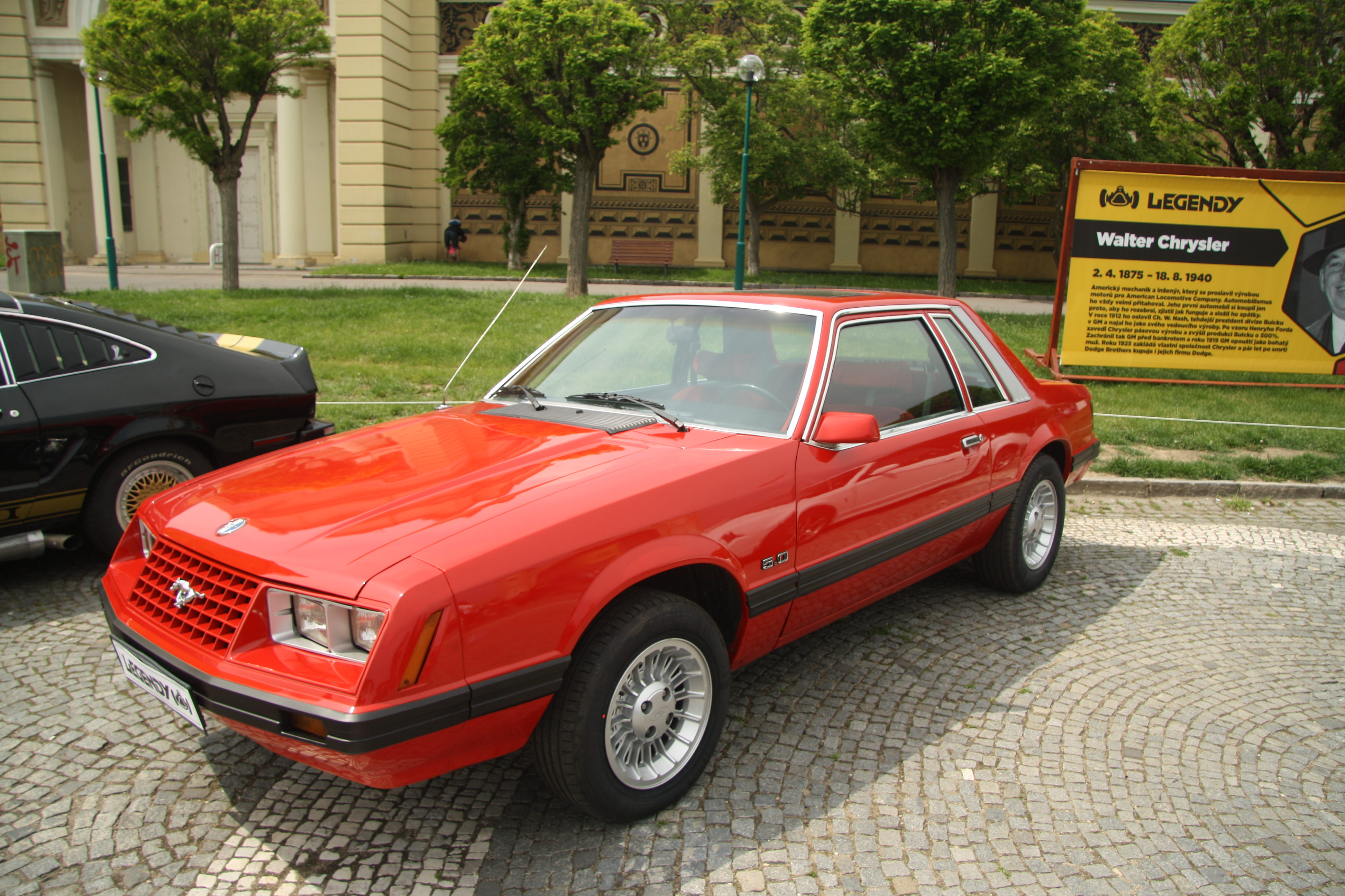 Ford Mustang 1979 at Legendy 2019 in Prague.